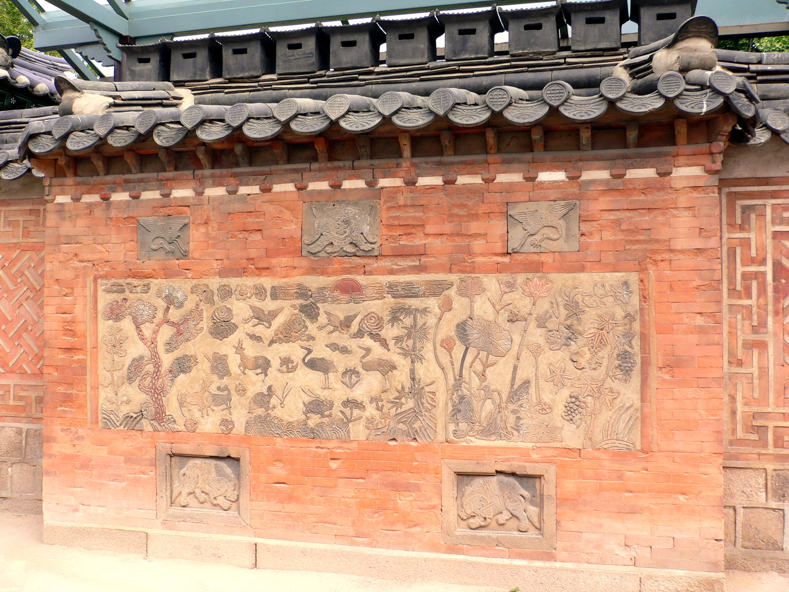 Wall outside of Jagyeongjeon in Gyeongbokgung, Seoul, South Korea